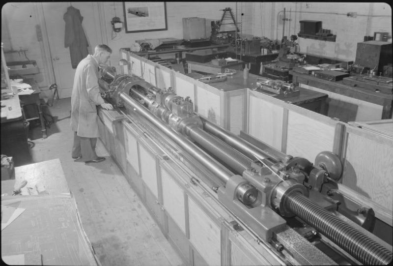 National Physical Laboratory- Science and Technology in Wartime, Teddington, Middlesex, England, UK, 1944 In the Metrology Division at the National Physical Laboratory, an operator works on the standard lathe to correct the accuracy of a lead screw for a machine tool. The original caption states that it is being corrected "until its accuracy is closely the same as that of the master screw seen in the foreground which is accurate in pitch to within 0.0002" over 5 feet".